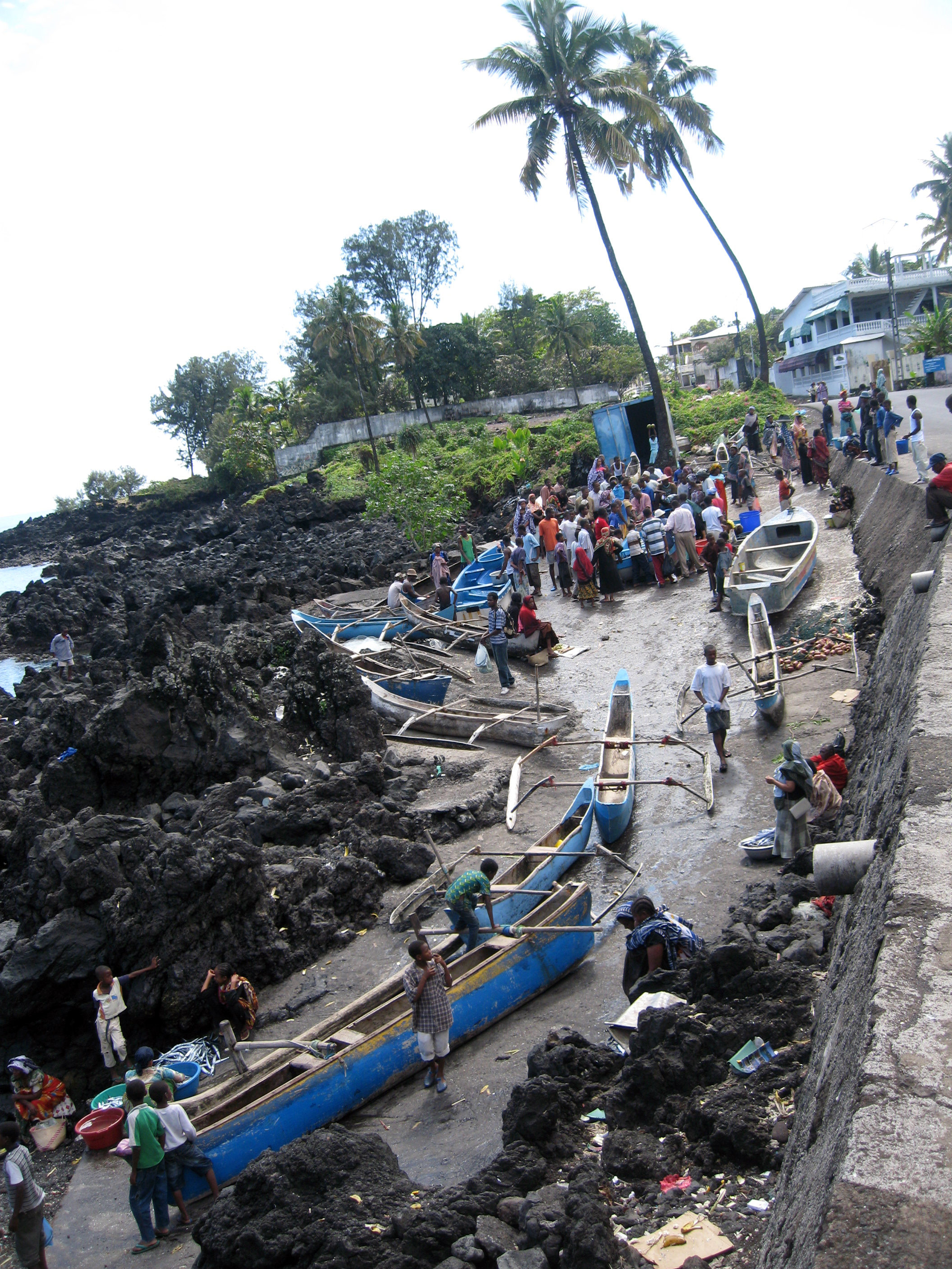 Catch of the day, Grande Comore